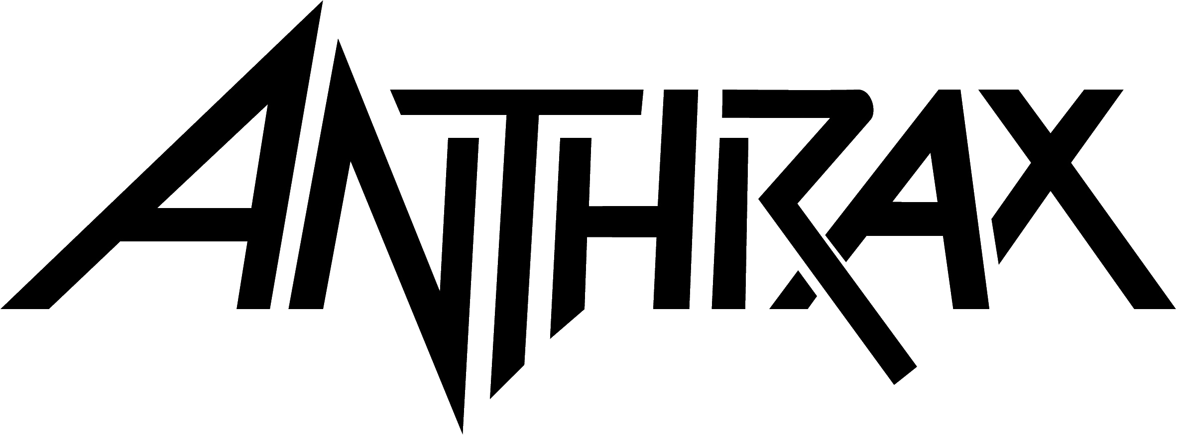 The logotype for Anthrax.